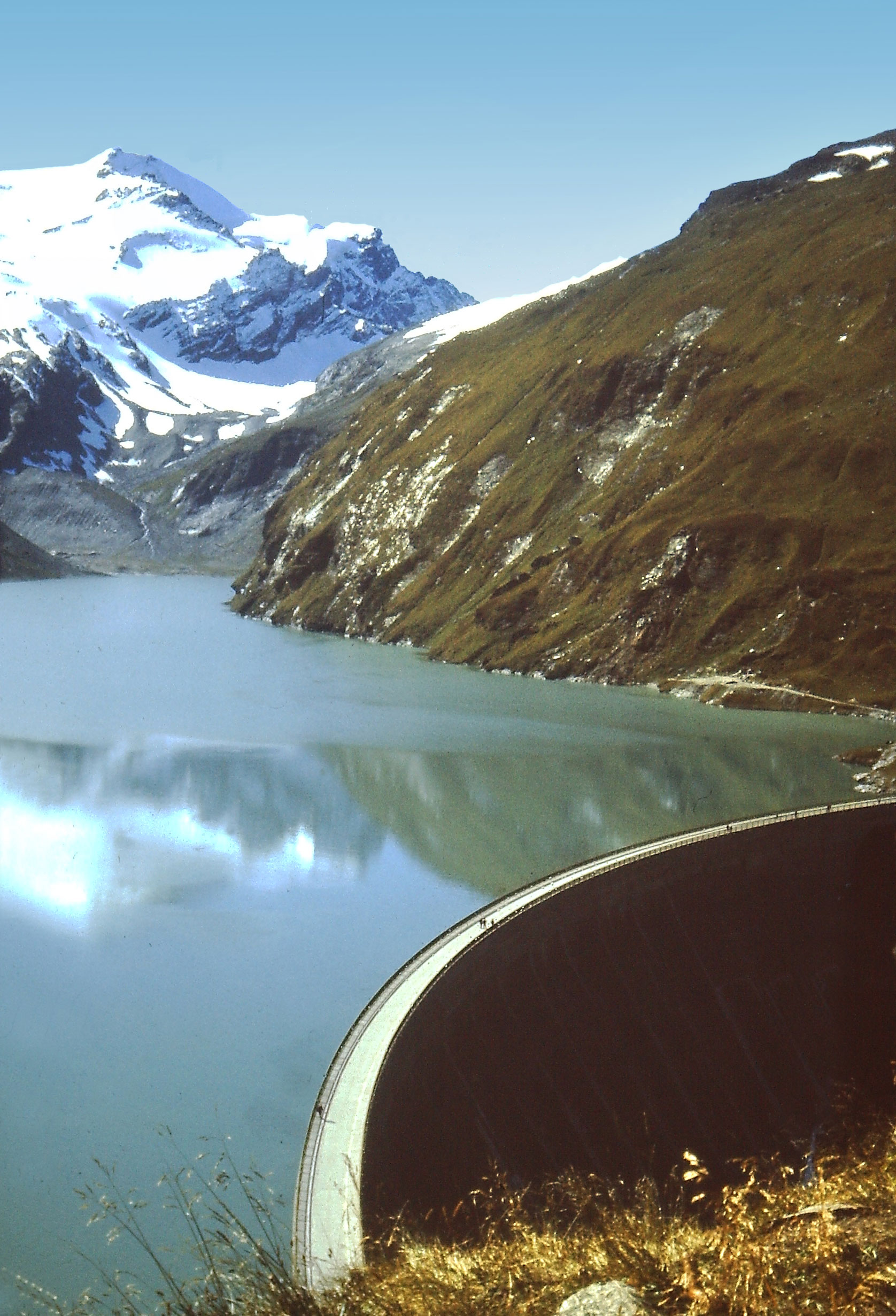 The reservoir Mooserboden near Kaprun in fall 1968